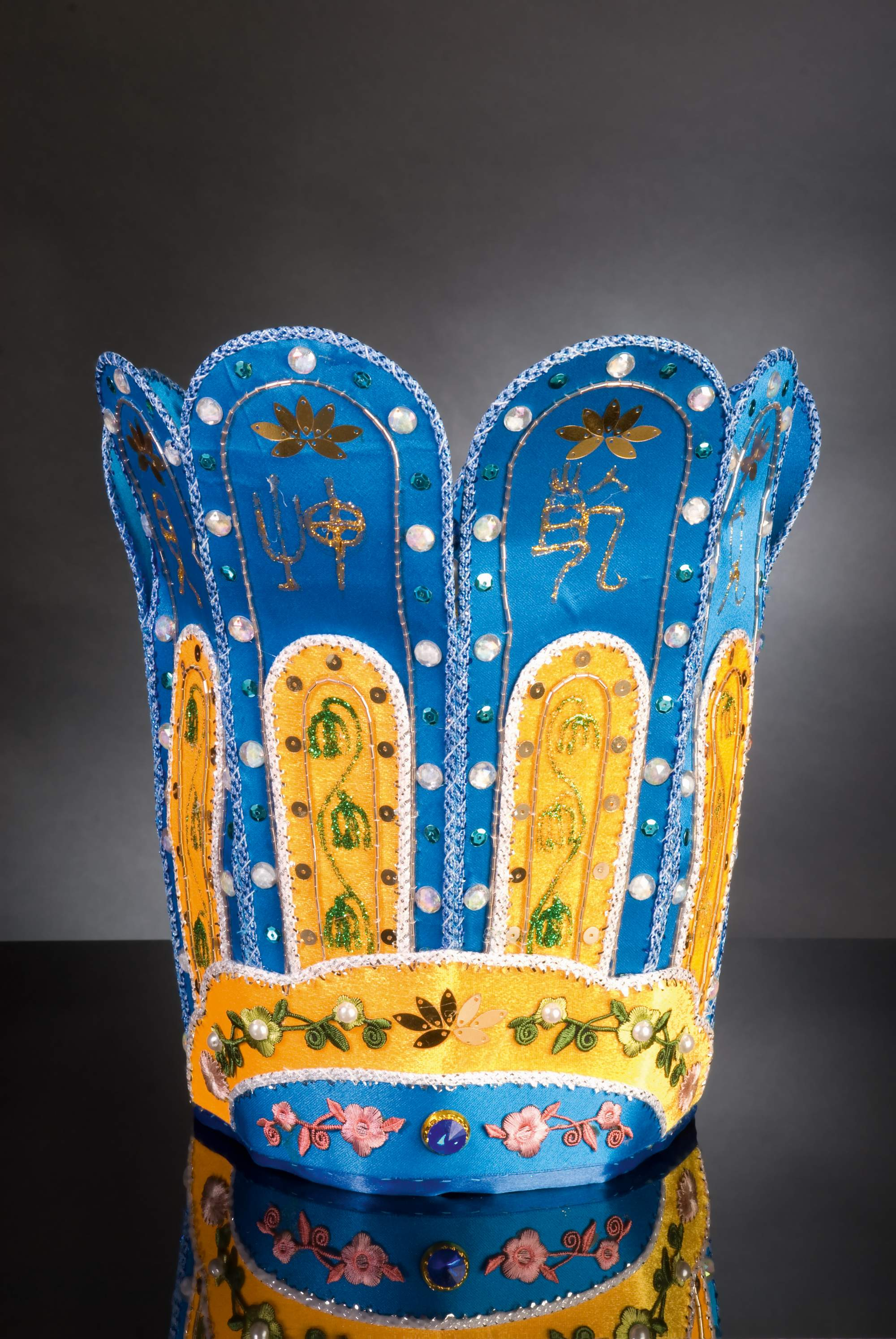 Tam Quang Mao